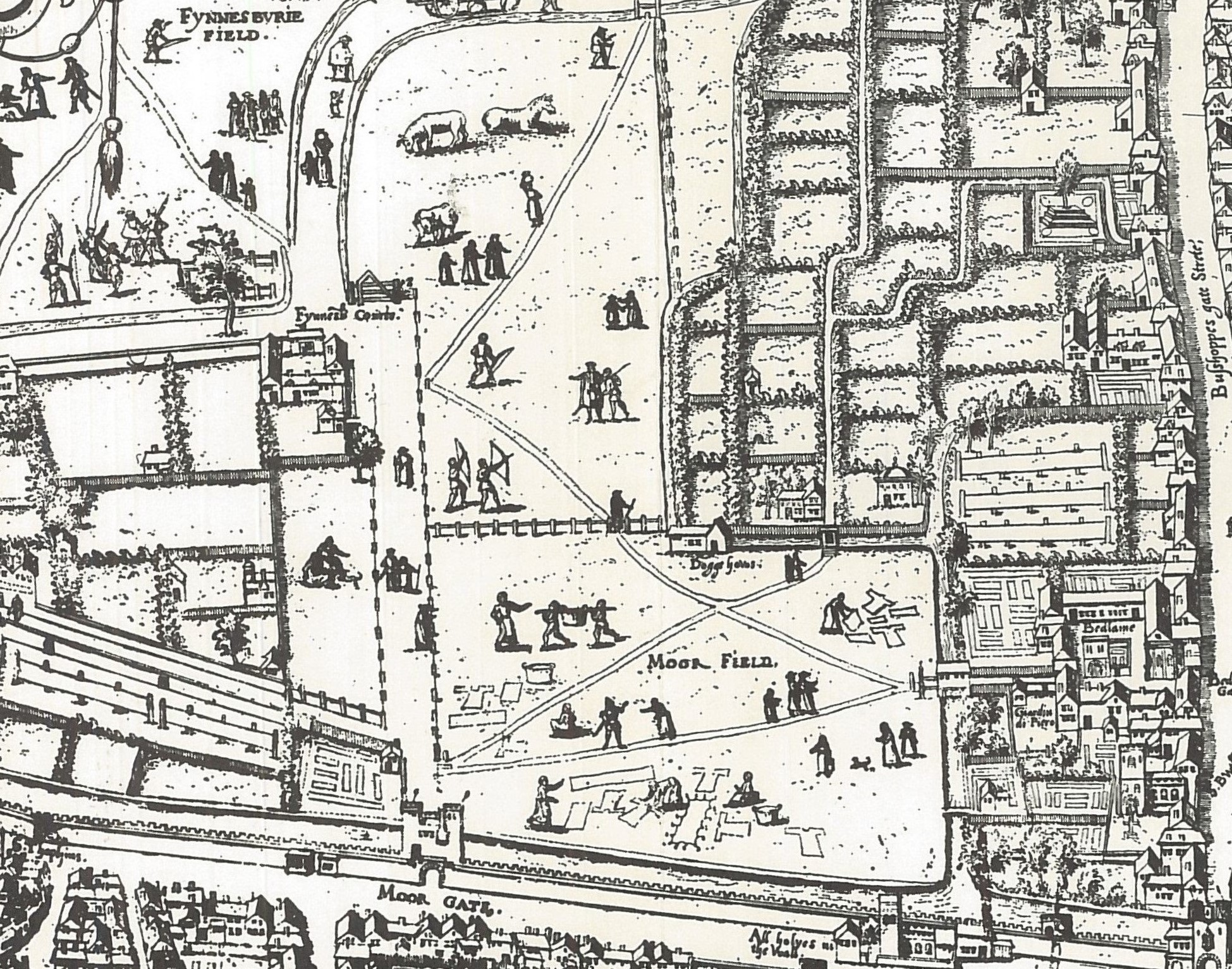 Detail of plate from the "Copperplate" map of London, 1550s, showing Moorgate and the Moorfields area